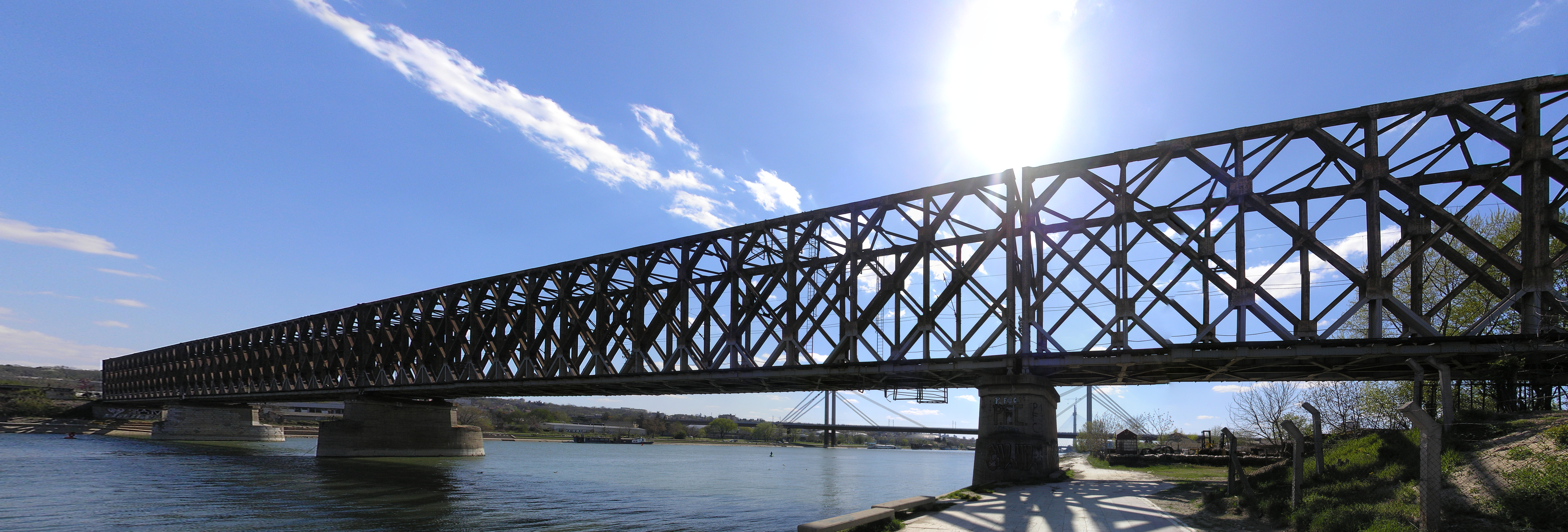 Panorama of the Old railway bridge, Belgrade, Serbia. Photos taken on the left (Novi Beograd) side of the Sava river.